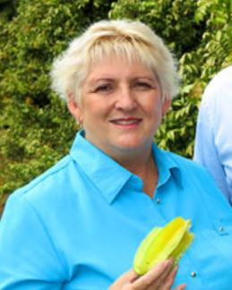 Michelle Landry meeting with a tropical fruit farmer in August 2016